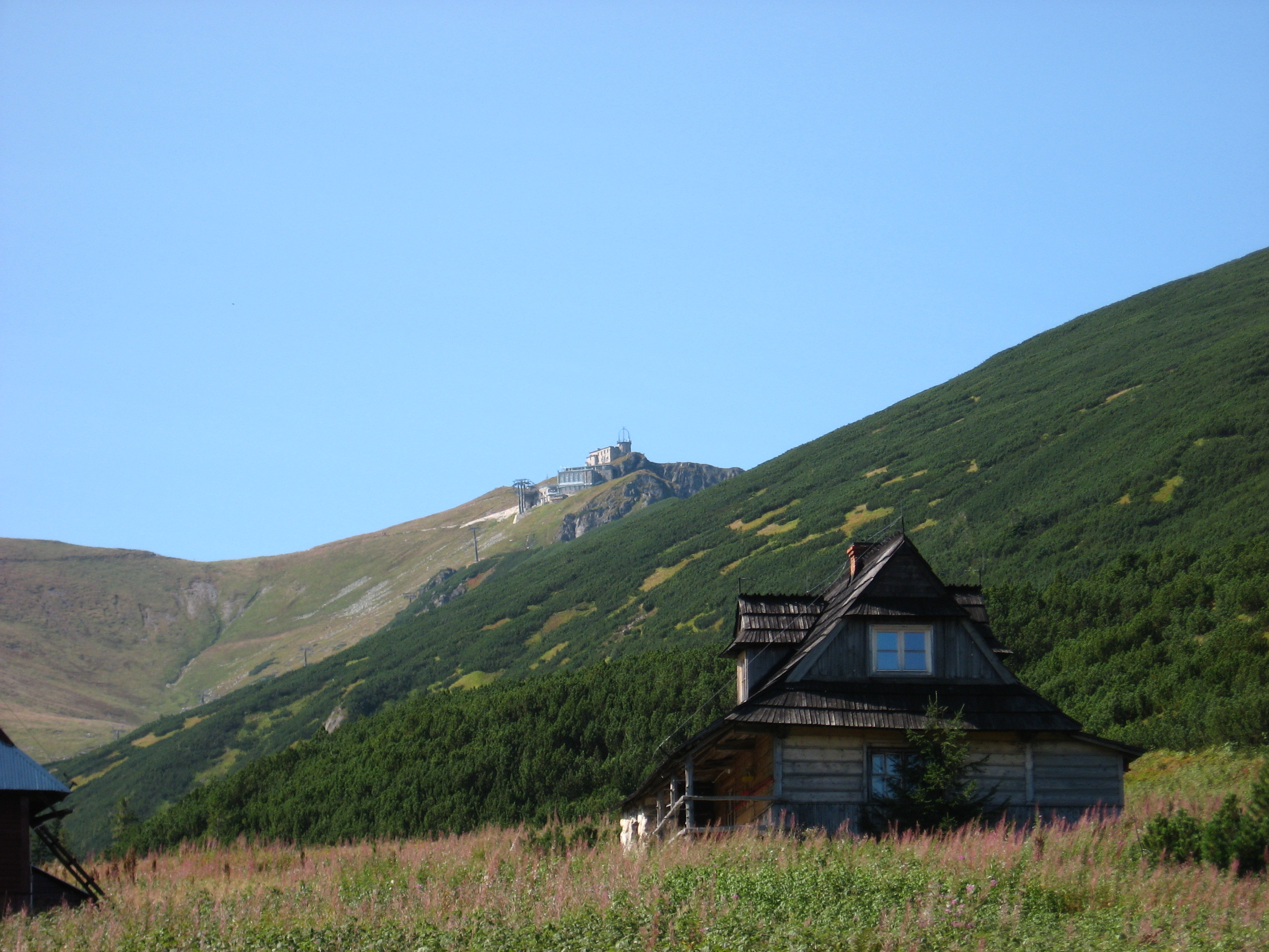 Kasprowy Wierch seen from Dolina Gąsienicowa